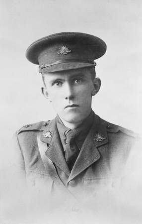 AWM caption: 1918. Studio portrait of Major (Maj) Frank Horton Berryman, DSO, 4th Australian Field Artillery Brigade and brigade major of the 7th Infantry Brigade. Maj Berryman was awarded a Distinguished Service Order on 4 September 1918 and was Mentioned in Despatches on 5 March 1918. A career soldier, (later Lieutenant General Sir Frank Berryman, KCVO, CB, CBE, DSO), he served during Second World War as GSO1 of the Sixth Division 1940-1941, Commander, Royal Artillery (CRA), 7th Division 1941, Deputy Chief of General Staff, Land Headquarters 1942-1944, Commander, II and I Corps, during 1944, Chief of Staff Adviser, Land Headquarters 1944-45. He was Director General of the royal visit of Queen Elizabeth II to Australia in 1954 and was knighted in July 1954. (Donor C. Barnden)